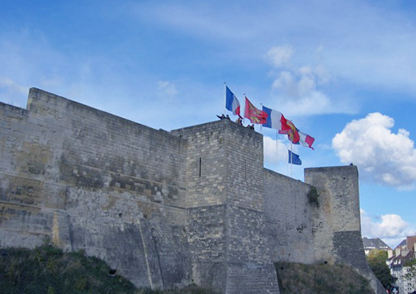 Castle of Caen, battlements.